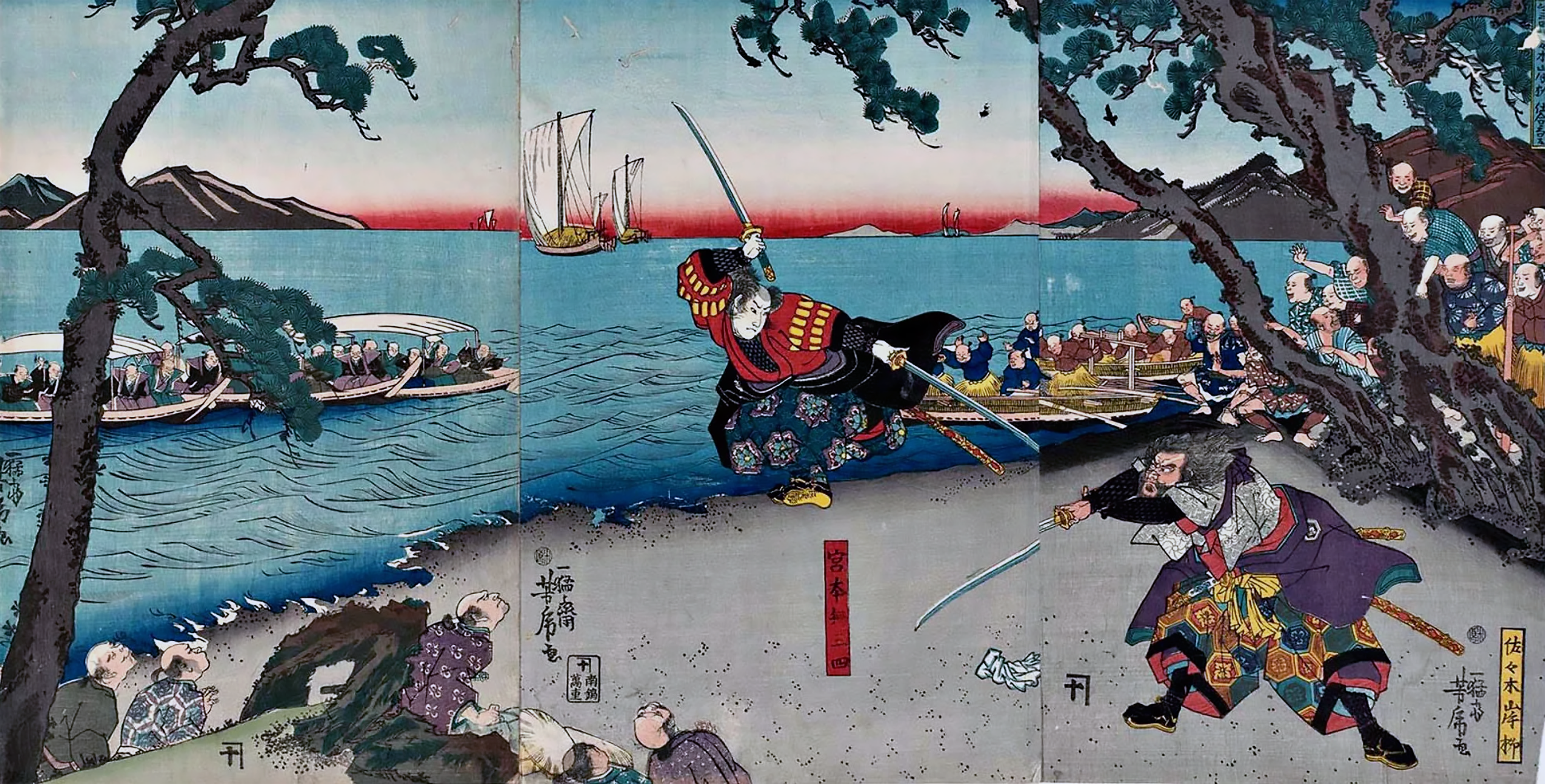 The famous duel between the sword master Miyamoto Musashi (left) and Sasaki Kojiro (Ganryu) at Ganryu-jima island.